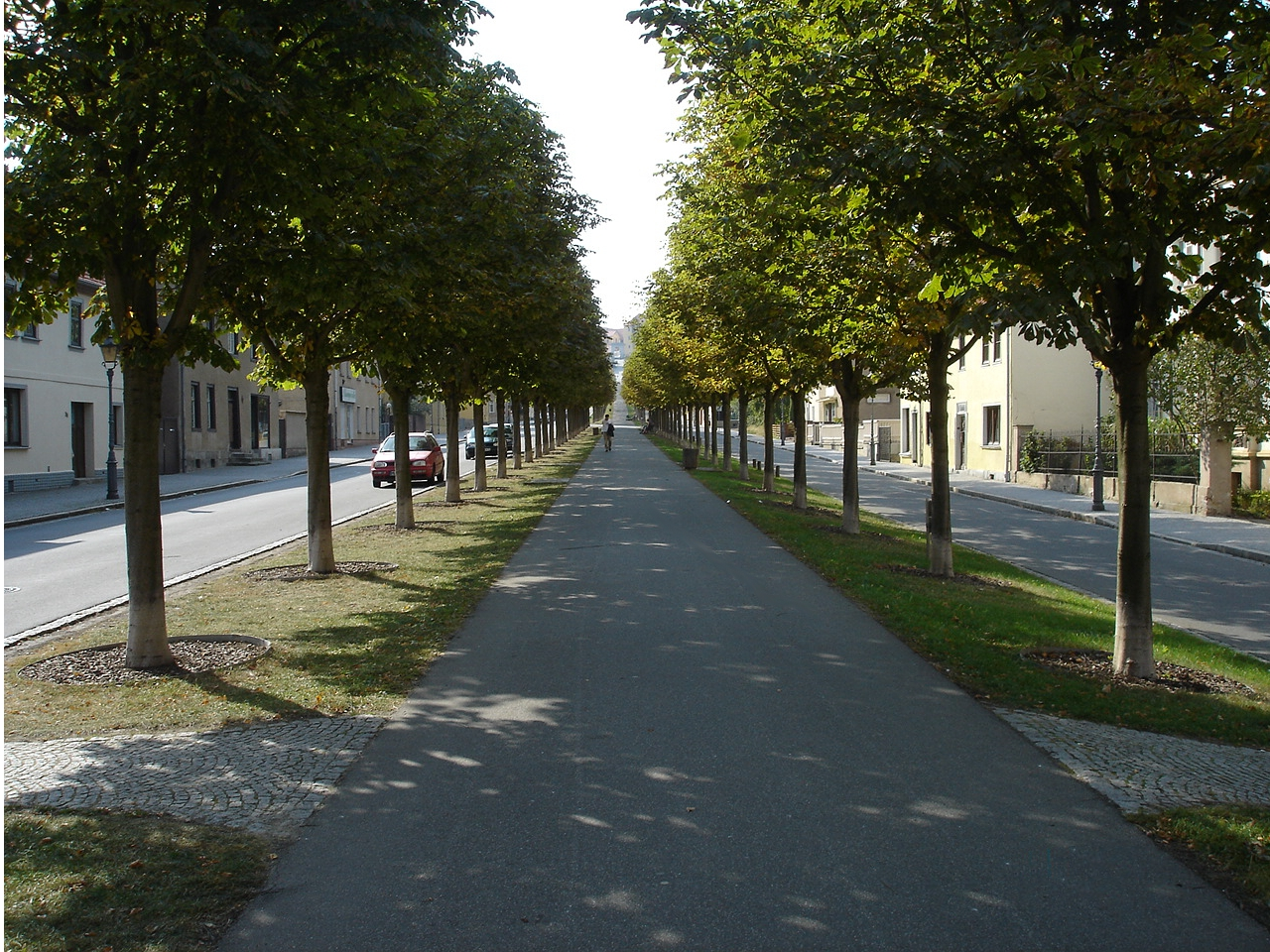 Ballenstedt,Alleeblick, September 2006, own work, Lange